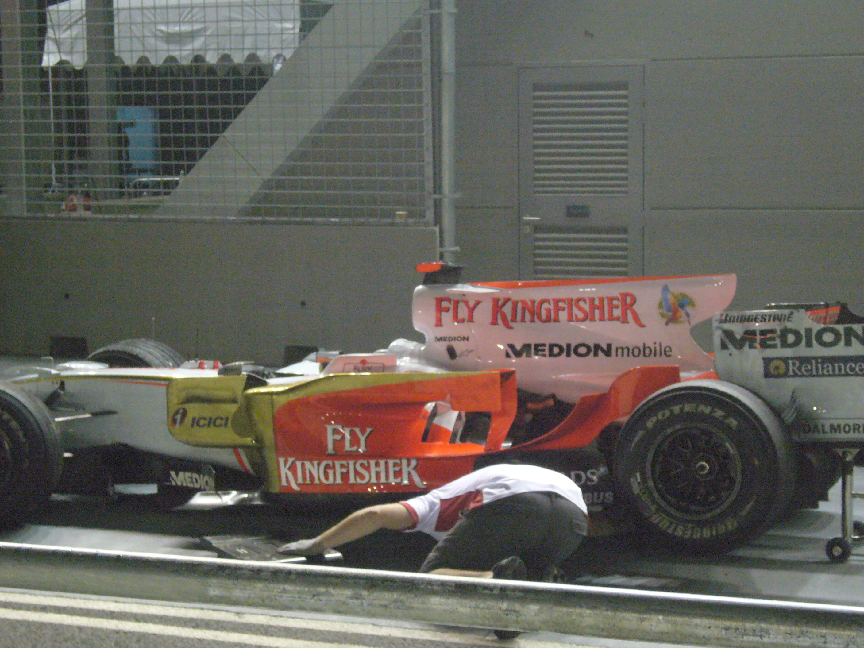 The Force India VJM01 being checked just before entering the Scrutineering garage after the 2008 Singapore Grand Prix